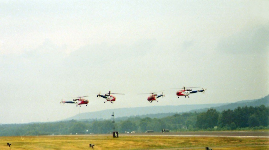 The Four Aerospatiale SA.3160 Alouette III of the Dutch Grasshoppers aerobatics team at Ramstein Air Base, Rhineland-Palatinate (Germany) on 24 June 1984.